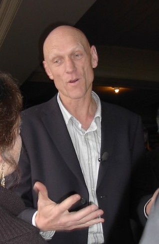 Peter Garrett campaigning in Melbourne for the 9 October 2004 Australian election